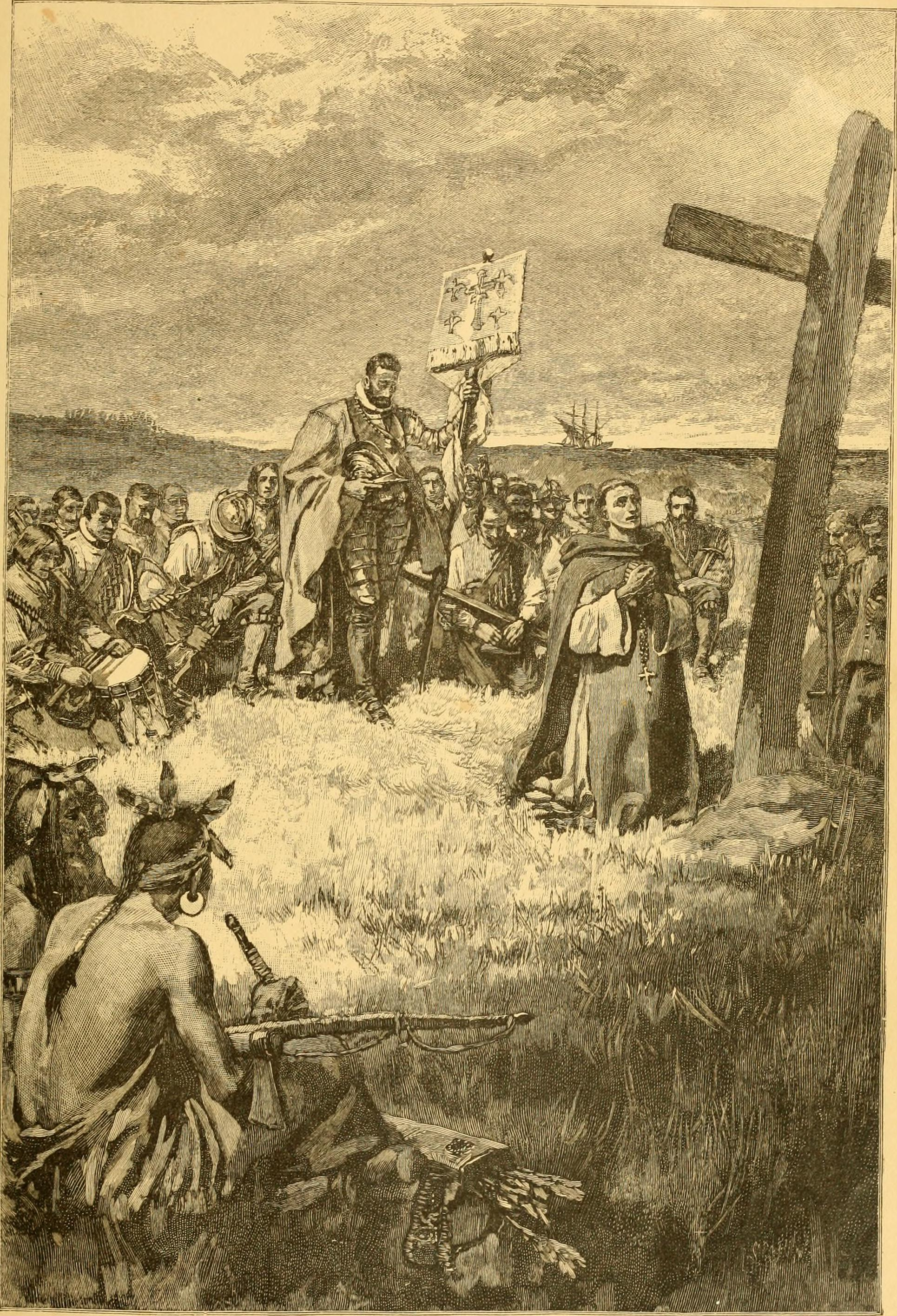 Jacques Cartier setting up a cross at Gaspé Title: A larger history of the United States of America, to the close of President Jackson's administration Year: 1886 (1880s) Authors: Higginson, Thomas Wentworth, 1823-1911 Subjects: Publisher: New York, Harper & Brothers Text Appearing Before Image: oking towards the ships; then they all three fell flat in theboat, when the Indians came out to meet them, and guidedthem to the shore. It was afterwards explained that thesewere messengers from the god Cudraigny, to tell the French-men to go no farther lest they should perish with cold. TheFrenchmen answered that the alleged god Vv-as but a fool—thatJesus Christ would protect his followers from cold. Then theIndians, dancing and shouting, accepted this interpretation,and made no further objection. But when at a later periodCartier and his companions passed the dreary winter, first ofall Europeans, in what he called the Harbor of the Holy Cross—somewhere on the banks of the St. Charles River—he learnedbv suffering. that the threats of the god Cudraigny had someterror in them, after all. He returned to France the followingsummer, leaving no colony in the New World. For the first French efforts at actual colonization we mustlook southward on the map of America again, and trace the Text Appearing After Image: JACQUES CARTIER SETTING UP A CROSS AT GASPE. THE FRENCH VOYAGEURS. 115 career of a different class of Frenchmen. It would haveneeded but a few minor changes in the shifting scenes of his-tory to have caused North America to have been colonizedby French Protestants, instead of French Catholics. AfterVillegagnon and his Huguenots had vainly attempted a colonyat Rio Janeiro in 1555, Jean Ribaut, with other Huguenots